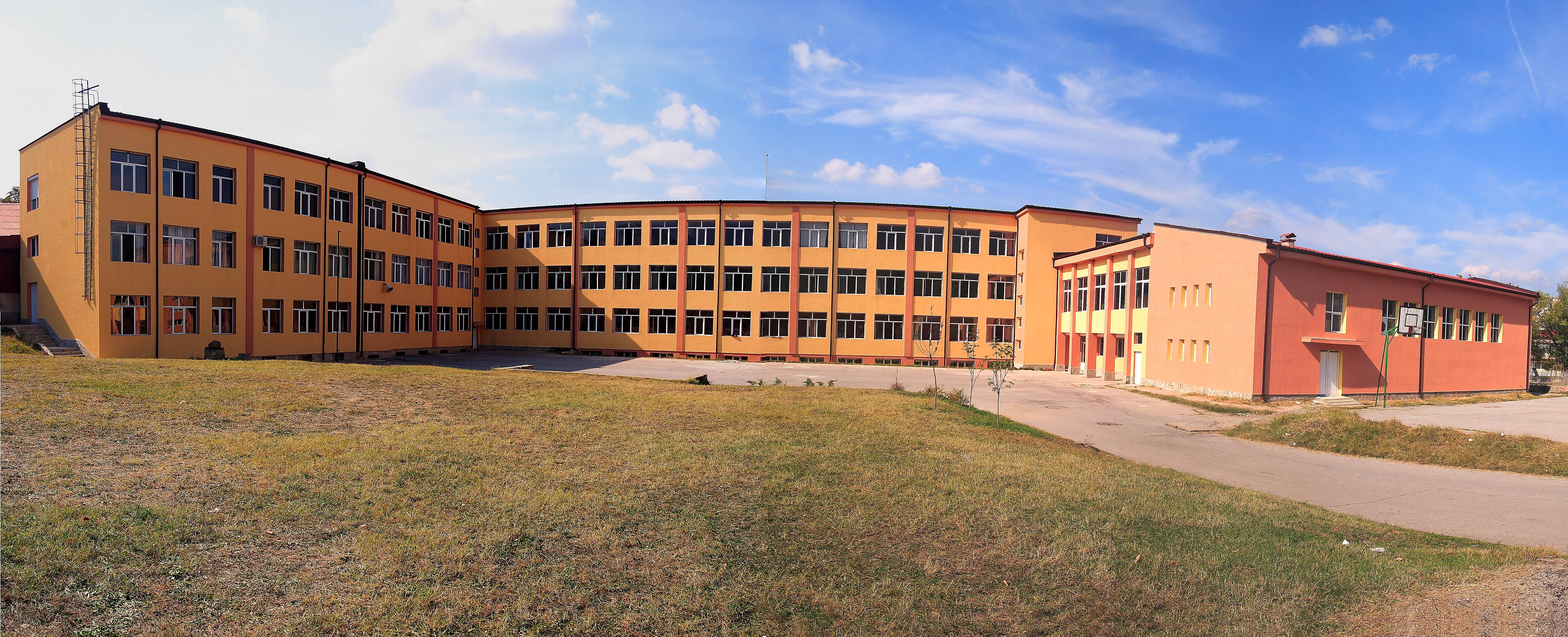 Shool Neofit Rilski